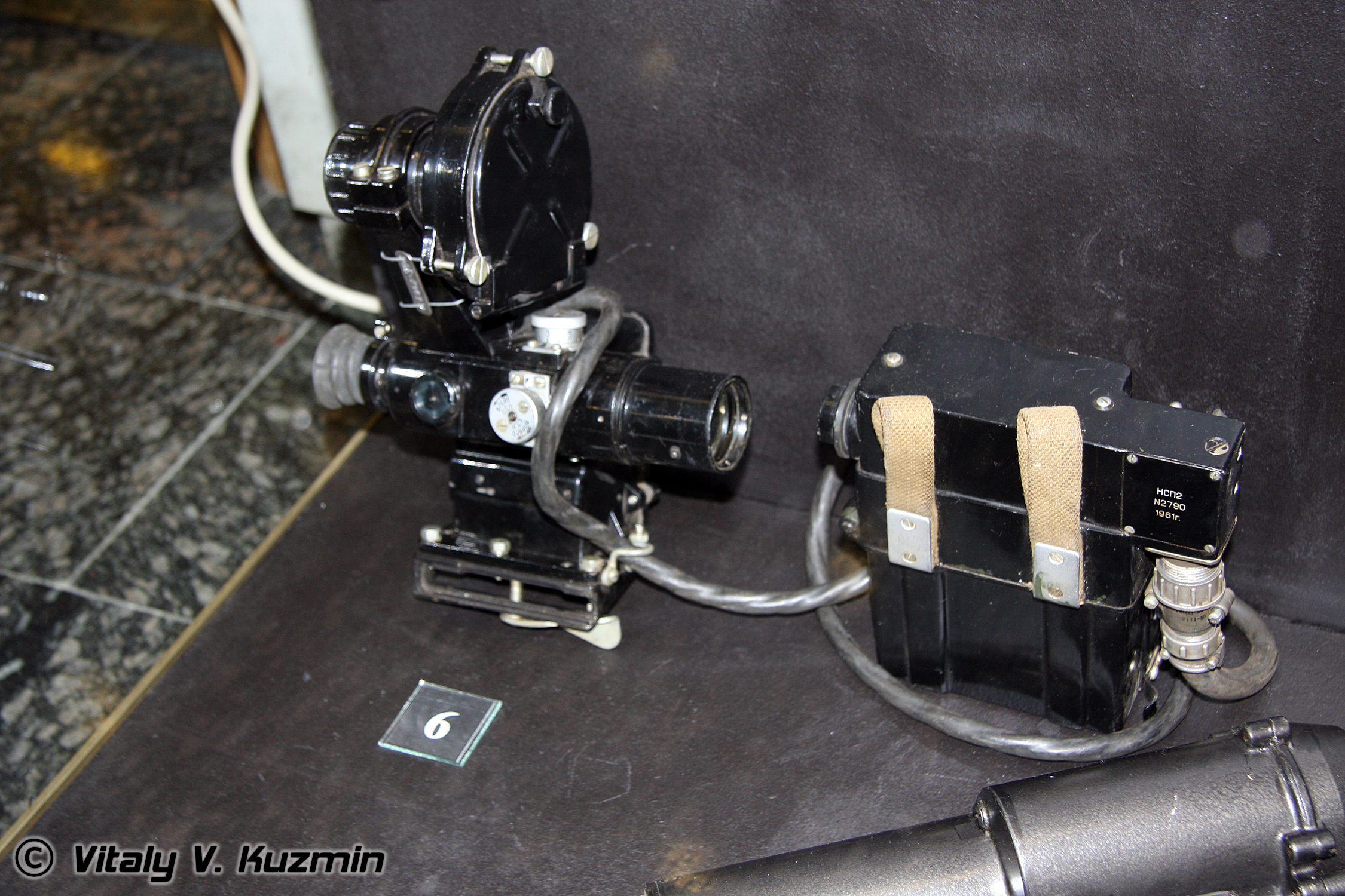 NSP-2 night vision scope